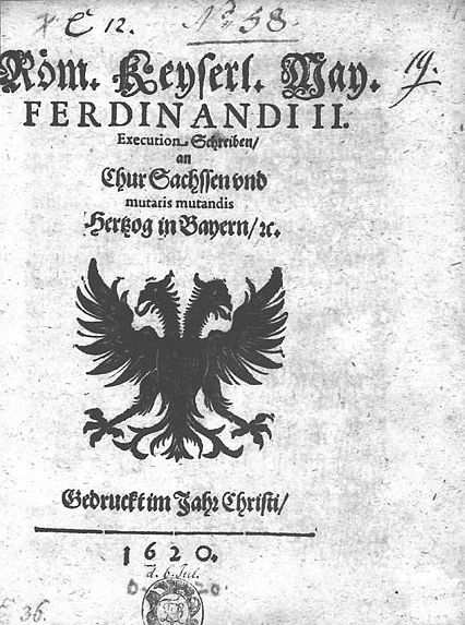 II. Ferdinánd császár parancsa (Exekutionsschreiben) a cseh felkelés leverésére a szász és a bajor uralkodó számára.